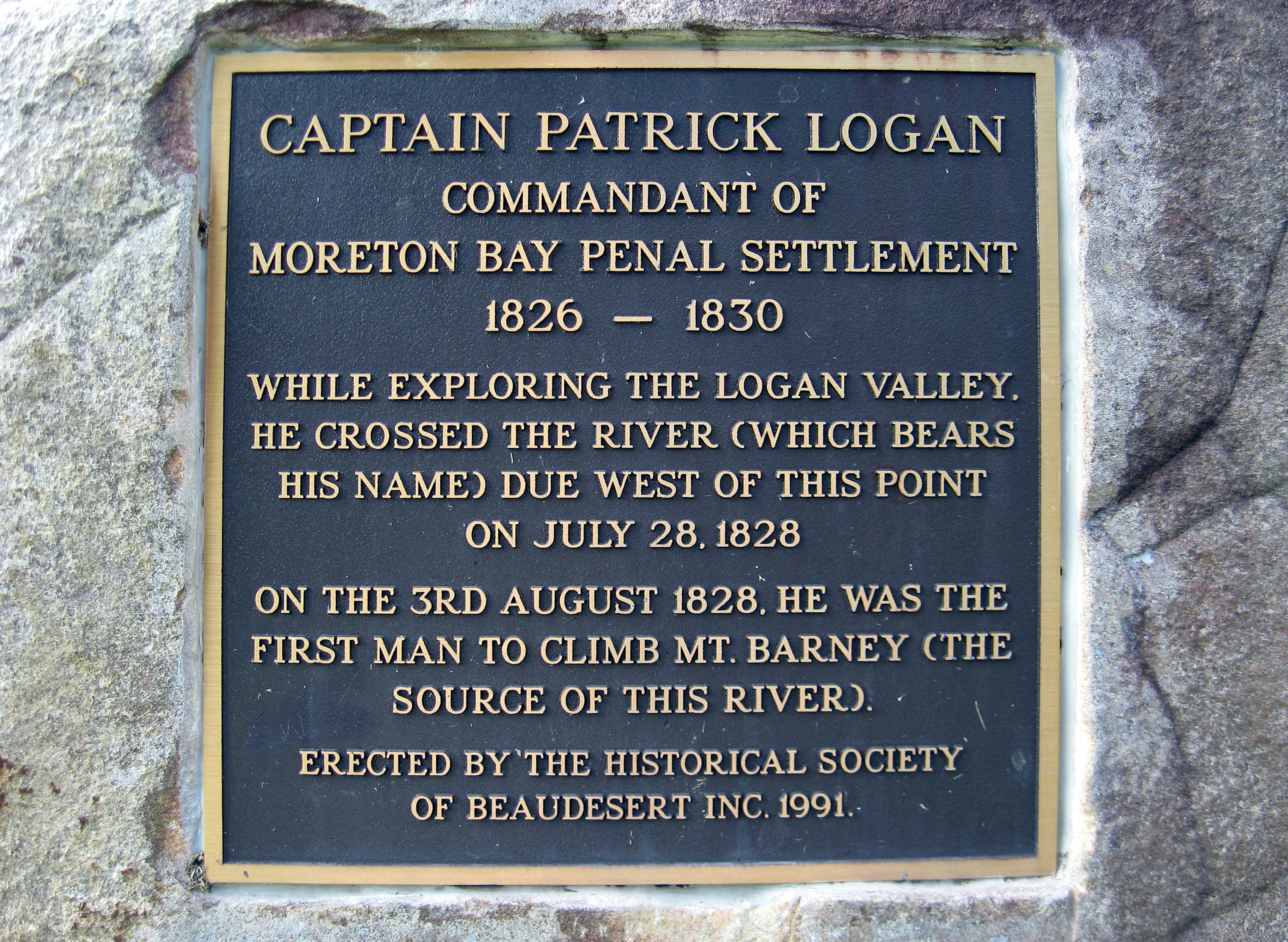 A monument to Captain Patrick Logan and his 1828 expedition to Mount Barney. Located along the Mt Lindesay Highway at Gleneagle, Queensland, Australia.